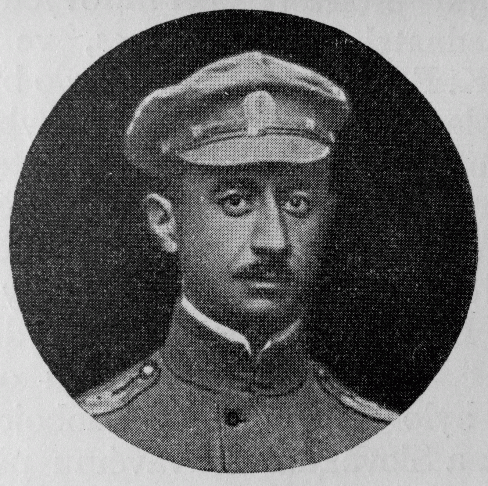 Oleg (Josef) Svátek(* February 3, 1888 - October 1, 1941) was a Czechoslovakian general, a Legionnaire in the First World War in Russia, and a member of illegal organisation the Defense of the Nation (During WW2). During World War I he worked as an officer of Czechoslovak legions in Russia. He returned to Czechoslovakia in 1920. Here is Oleg Svátek in the rank of captain of legion. (In the section Revolutionary workers - Soldiers.)